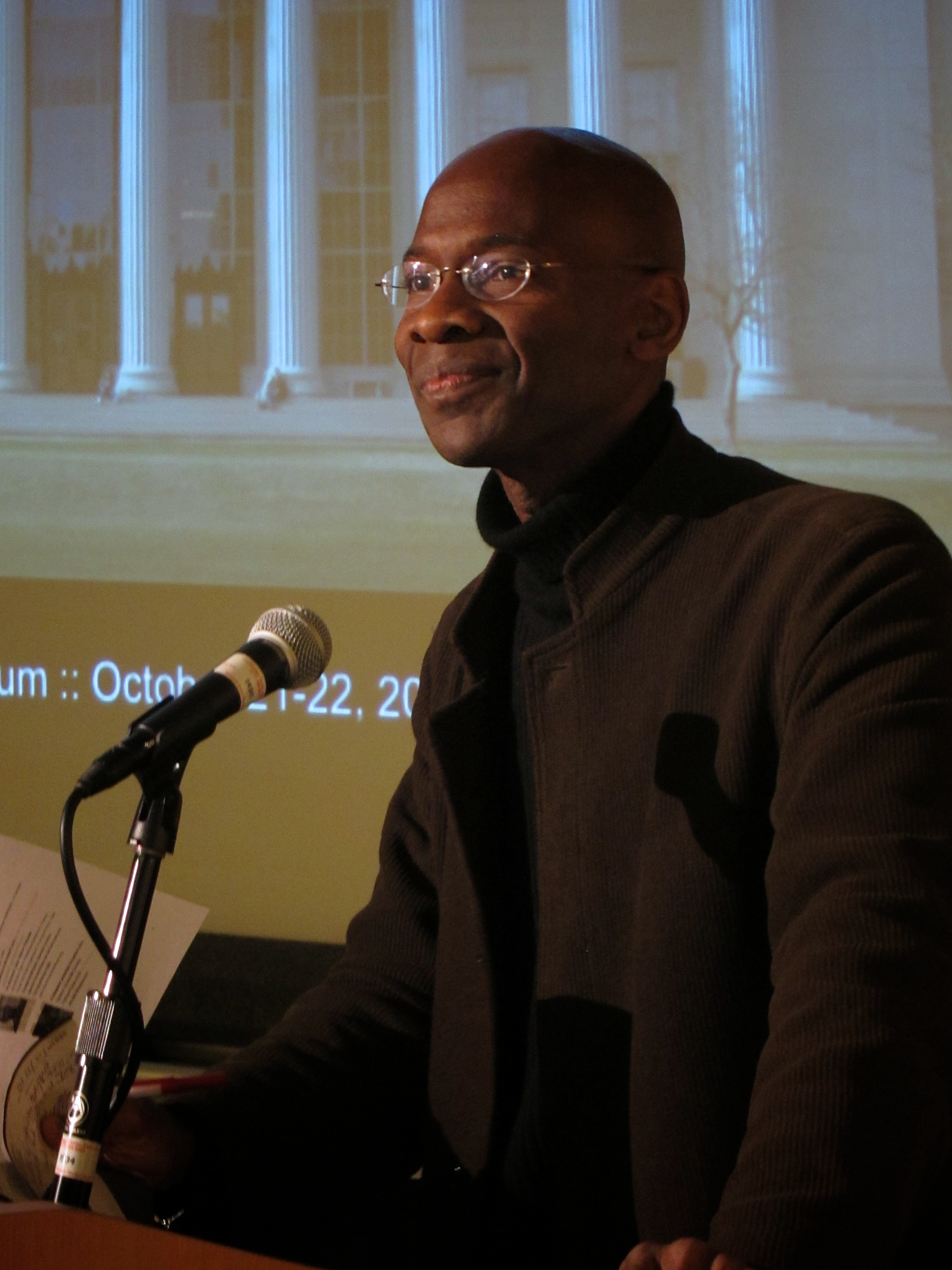 Dr. Michel Degraff at M.I.T. Kreyòl ayisyen : Profesè Michel Degraff nan M.I.T.